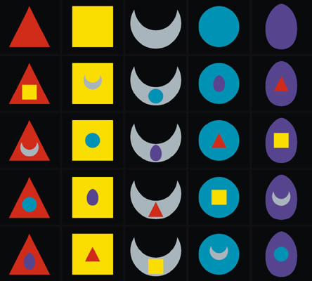 Diagram of Tattva vision system of western Occultism, loosely based on Hindu elements Tejas (fire, red triangle), Prithivi (earth, yellow square), Apas (water, silver/white crescent), Vayu (air, blue circle), and Akasha (spirit, black/indigo ovoid).